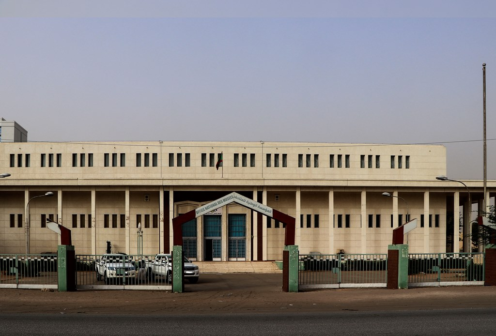 Nouakchott: National Museum of Mauretania - Bulding